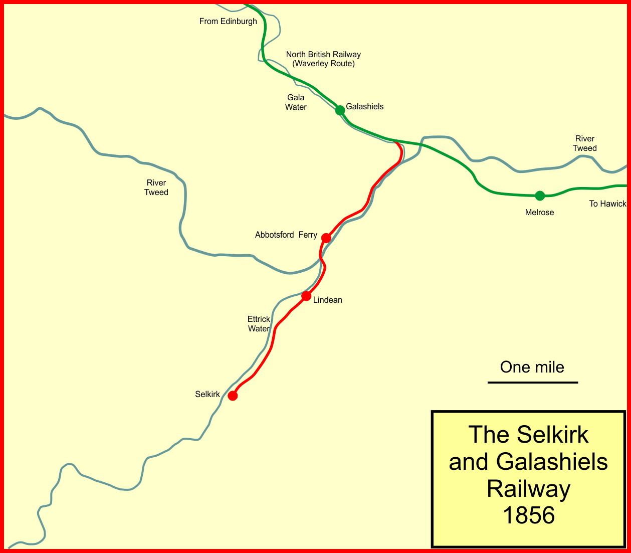 System map of the Selkir and Galashiels Railway, Scotland, in 1856